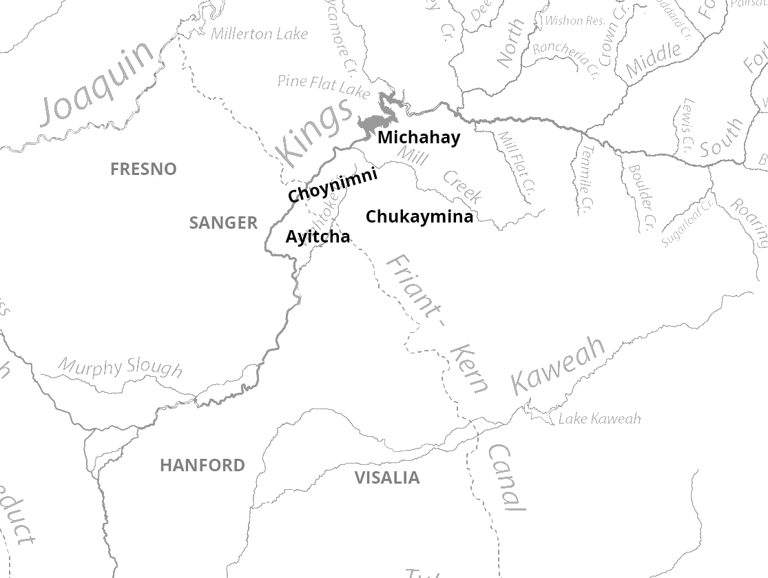 This file was derived from: Kings River watershed.png Information from